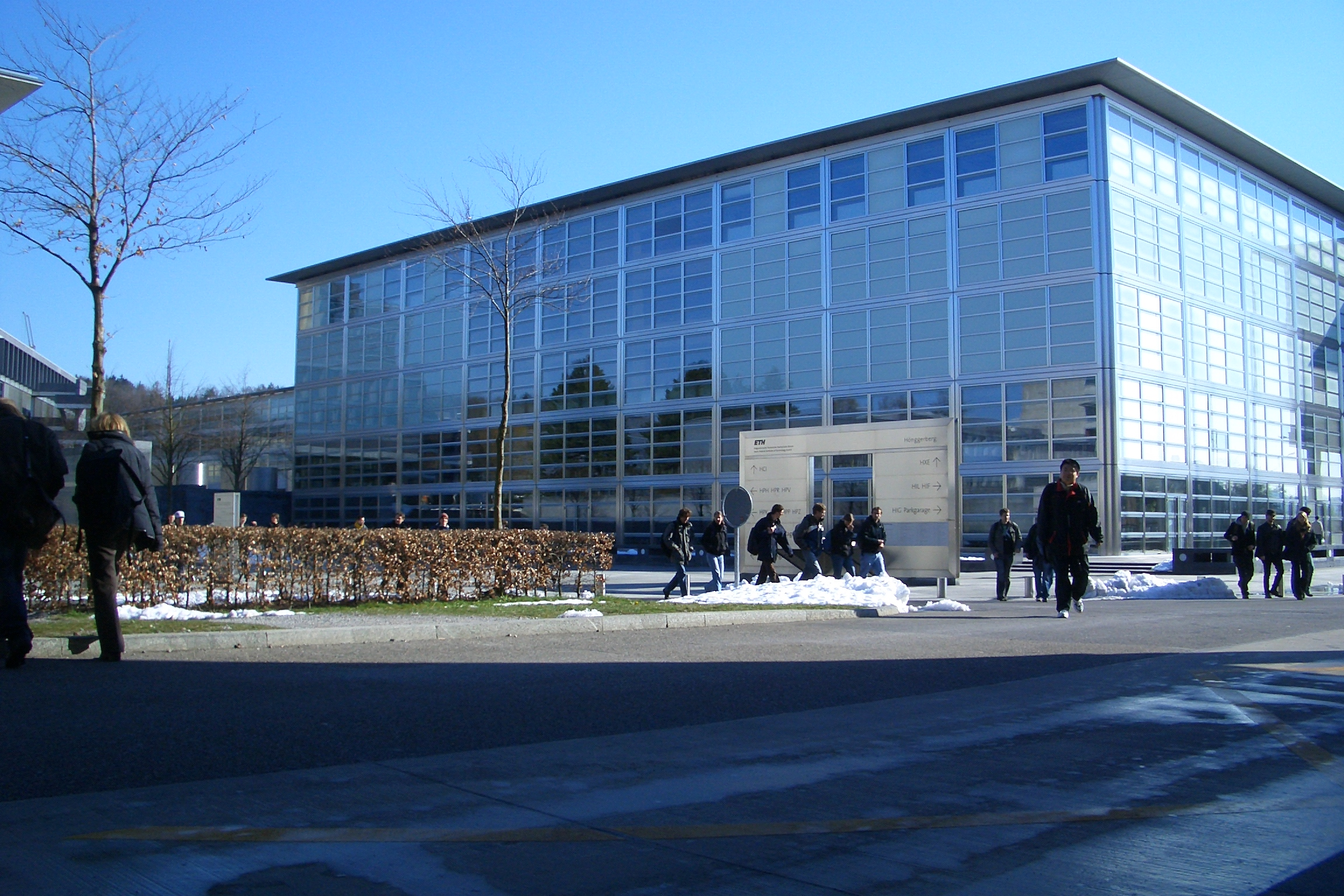 HCI Building of the ETHZ Hönggerberg